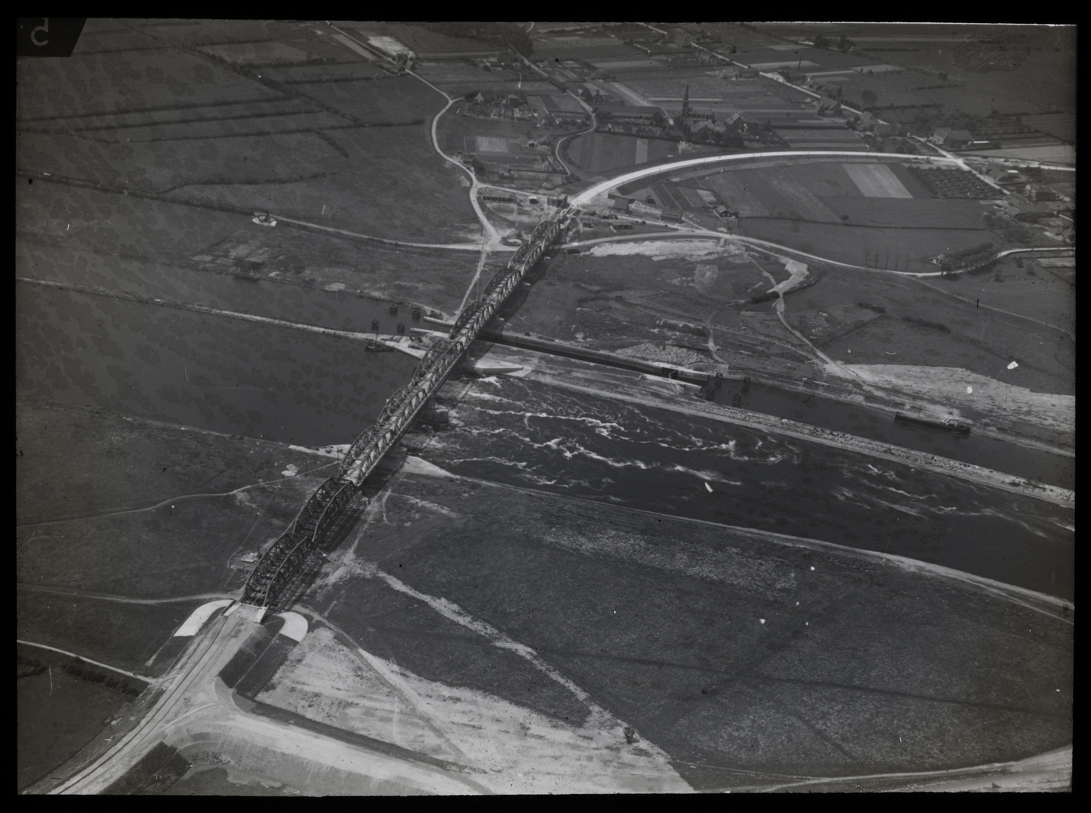 Aerial photograph of Grave, The Netherlands.